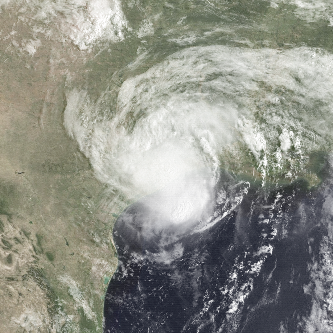 Hurricane Chantal at peak intensity making landfall in eastern Texas on August 1, 1989